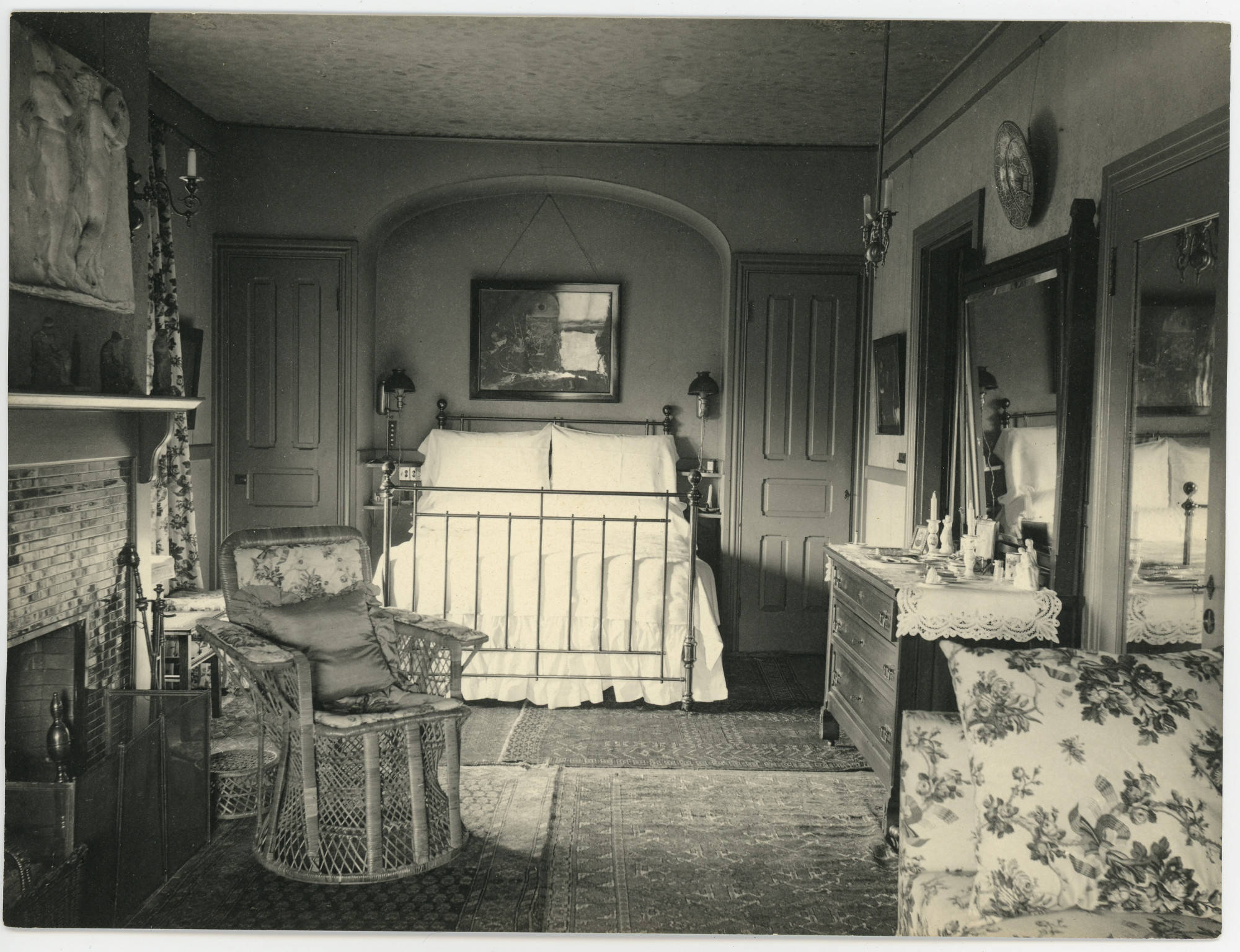 The Deanery, Interior View, Miss Thomas' Bedroom, Bryn Mawr College